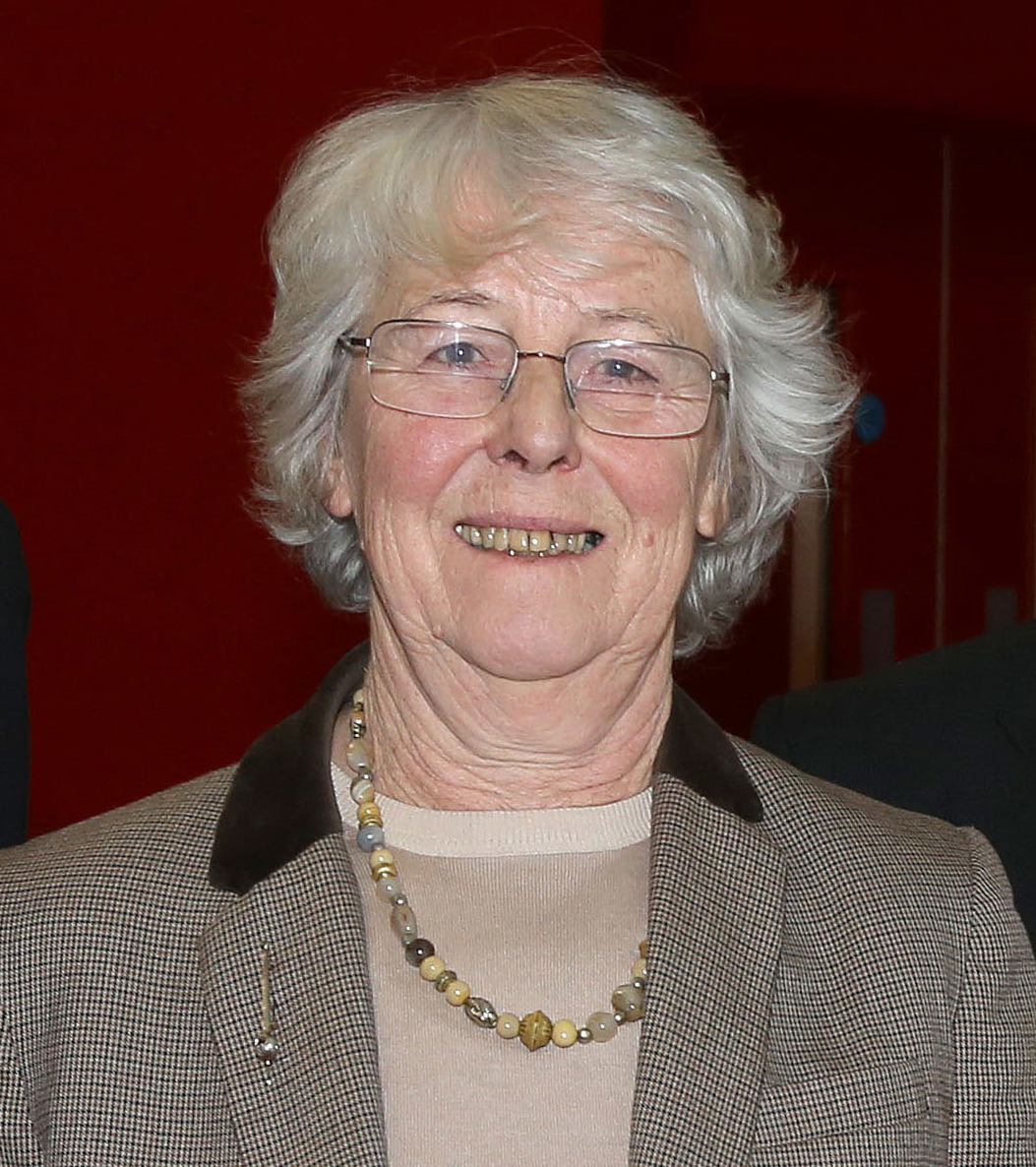 Professor Anthony King, Professor Dame Helen Wallace, Professor David Sanders, the Rt Hon the Baroness Williams of Crosby and the Rt Hon John Bercow MP